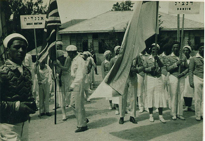 The English and Danzig delegations at the 1st Maccabiah